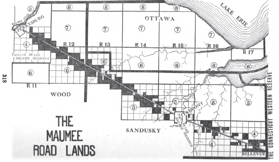 a tract of land donated to Ohio by the federal govt. in 1823 to support of building a road, known as the Maumee Road Lands